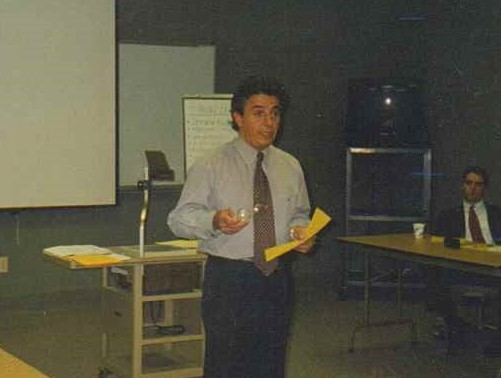 Buffalo State College Student Affairs Vice President and Dean of Students Phillip Santa Maria (1943-2005) Speaking at MOOG, Elma, New York, 2000